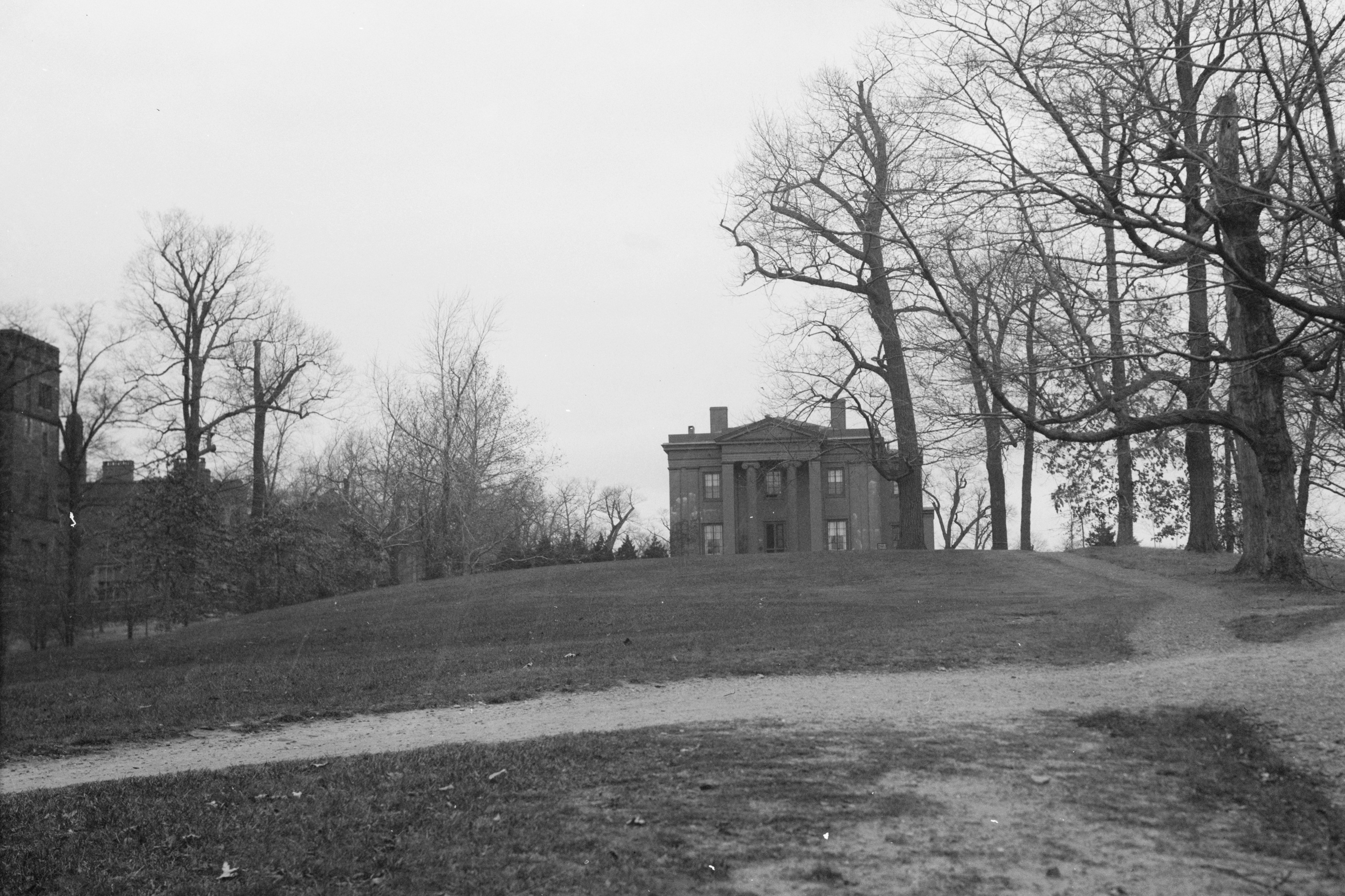 Sachem's Wood, the Hillhouse family mansion, from Sachem Street, New Haven, CT. HABS description: Brownstone,brick with stucco covering, 2-story with flat roof. Front elevation 3-bays wide with center doorway. The beautiful S-story portico has Ionic columns in antis with pediment.